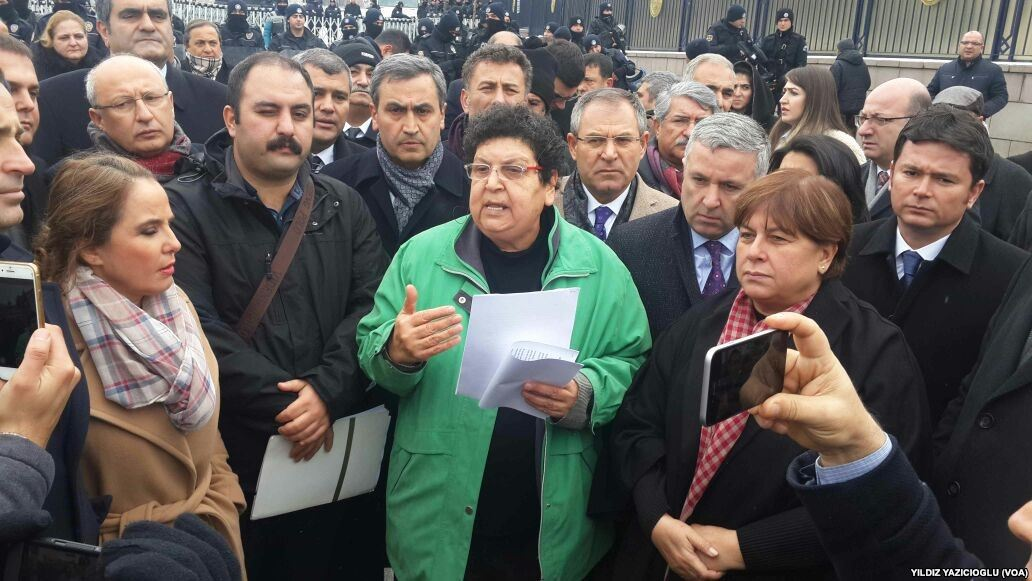 Republican People's Party (CHP) MP Şenal Sarıhan reading press release on behalf of CHP and civil society organizations under police supervision during protests against constitutional changes in Ankara.